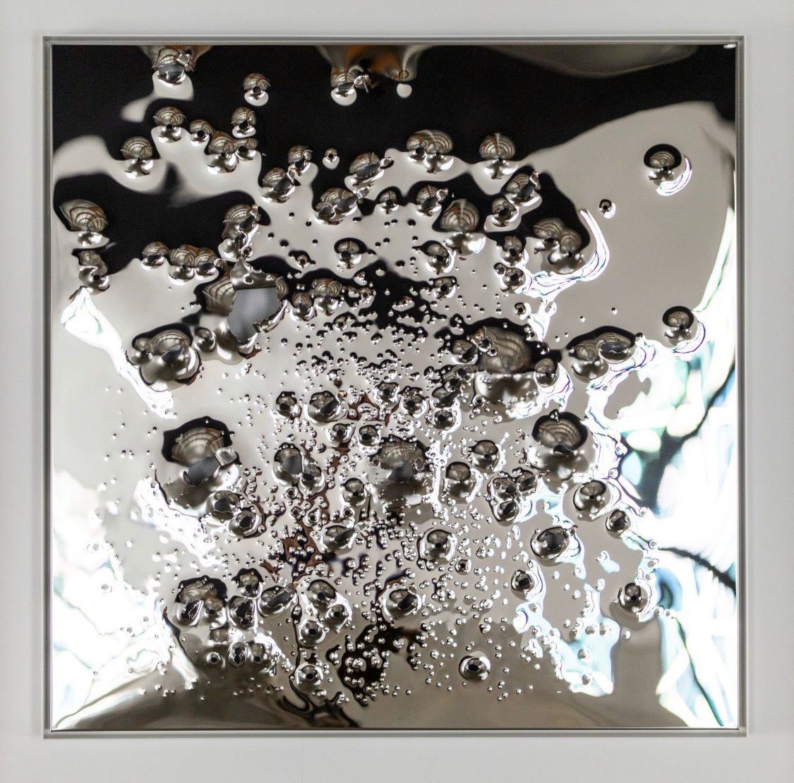 Bullet Series